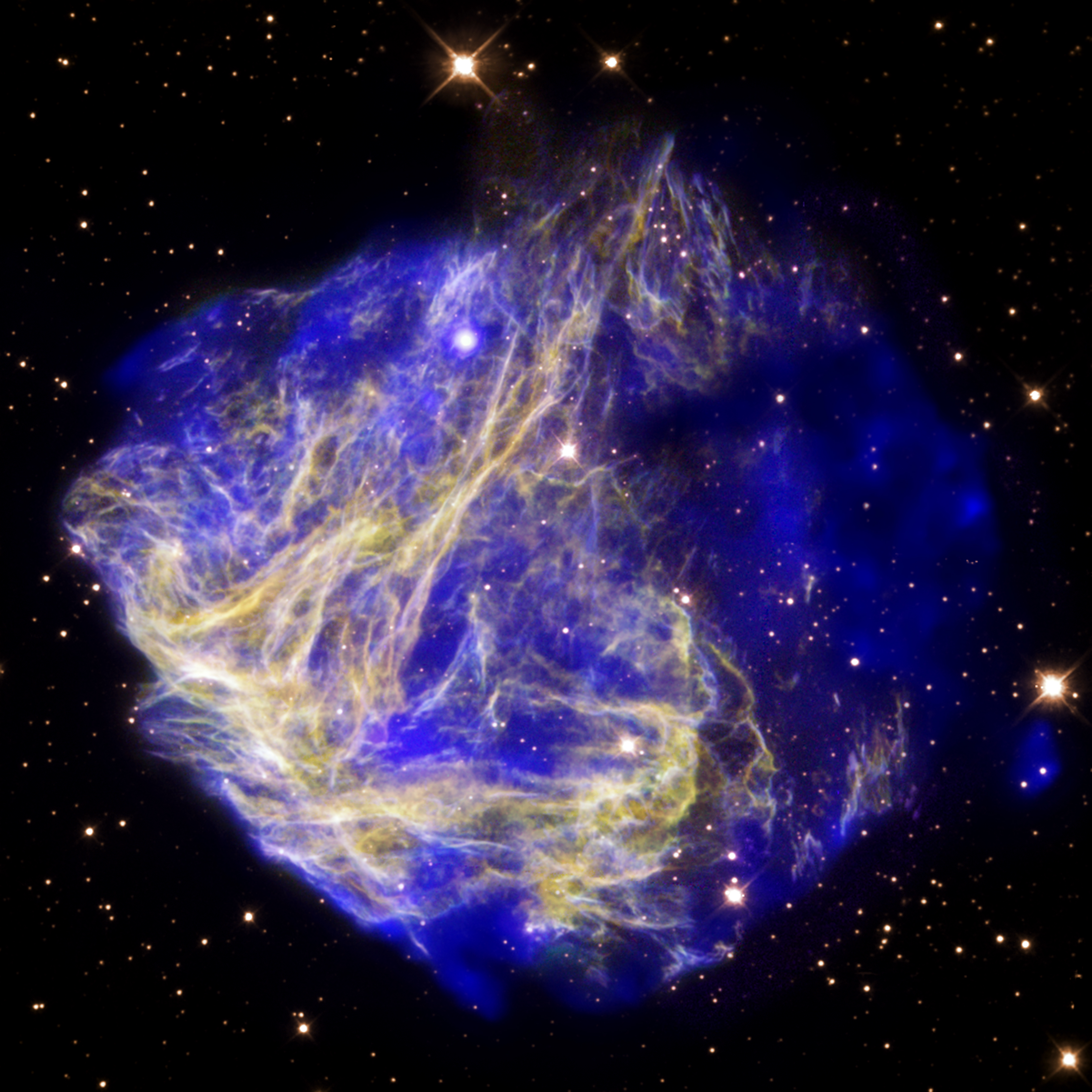 Description: This composite image of data from Chandra (blue) and Hubble (yellow and purple) depicts the scene of a supernova explosion's aftermath. The X-ray data reveal a bullet-like structure to the lower right that appears to have been blown out of the remnant. The detection of the bullet, which is traveling at some 5 million miles per hour, is evidence that the explosion that created the remnant was not symmetrical. Creator/Photographer: Chandra X-ray Observatory NASA's Chandra X-ray Observatory, which was launched and deployed by Space Shuttle Columbia on July 23, 1999, is the most sophisticated X-ray observatory built to date. The mirrors on Chandra are the largest, most precisely shaped and aligned, and smoothest mirrors ever constructed. Chandra is helping scientists better understand the hot, turbulent regions of space and answer fundamental questions about origin, evolution, and destiny of the Universe. The images Chandra makes are twenty-five times sharper than the best previous X-ray telescope. NASA's Marshall Space Flight Center in Huntsville, Ala., manages the Chandra program for NASA's Science Mission Directorate in Washington. The Smithsonian Astrophysical Observatory controls Chandra science and flight operations from the Chandra X-ray Center in Cambridge, Massachusetts. Medium: Chandra telescope x-ray Date: 2010 Persistent URL: Repository: Smithsonian Astrophysical Observatory Gift line: X-ray: (NASA/CXC/Penn State/S.Park et al.); Optical: NASA/STScI/UIUC/Y.H.Chu & R.Williams et al Accession number: n49_453